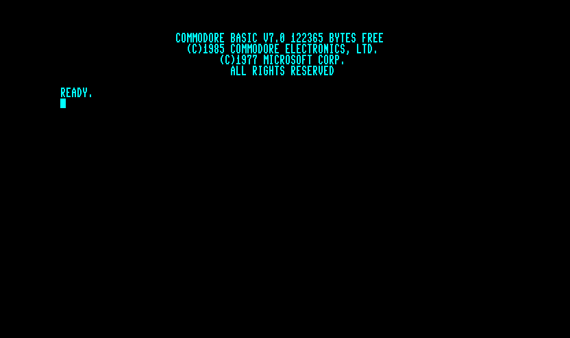 Screenshot of Commodore 128 started in 80 column mode. Created by myself with Emulator Vice.